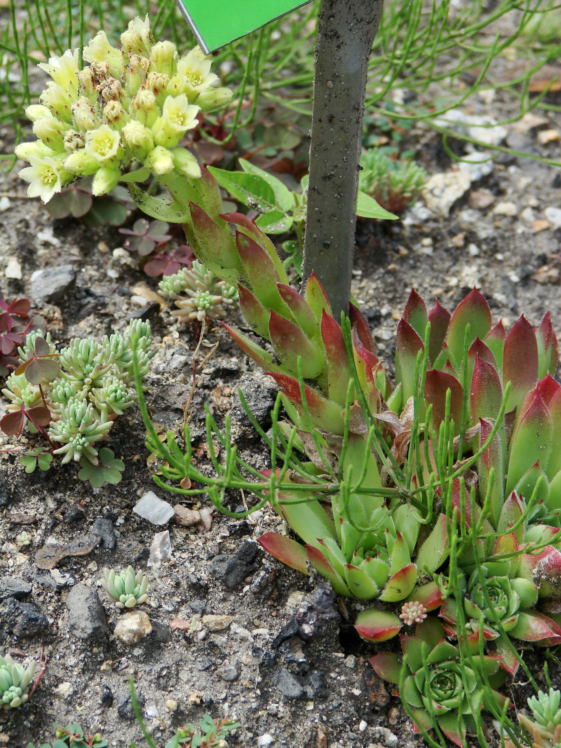 Picture taken in the university botanical garden of Wrocław (Poland): Jovibarba heuffelii (Schott) A. Löve & D. Löve